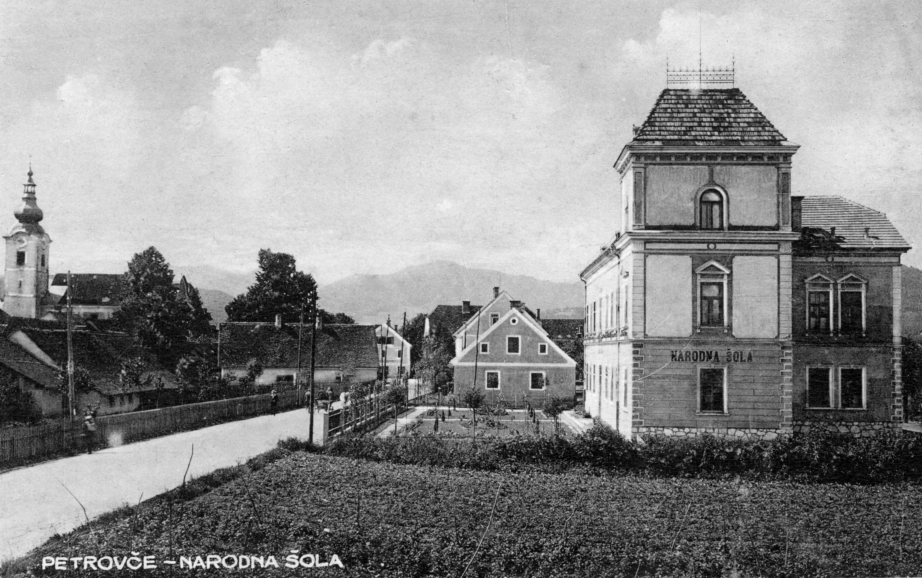 Petrovče, a village near Celje in Slovenia. On the left can be seen the Basilica of St. Mary, built at the end of the 14th Century but rebuilt several times. On the right is the village school. Photo taken around 1930.